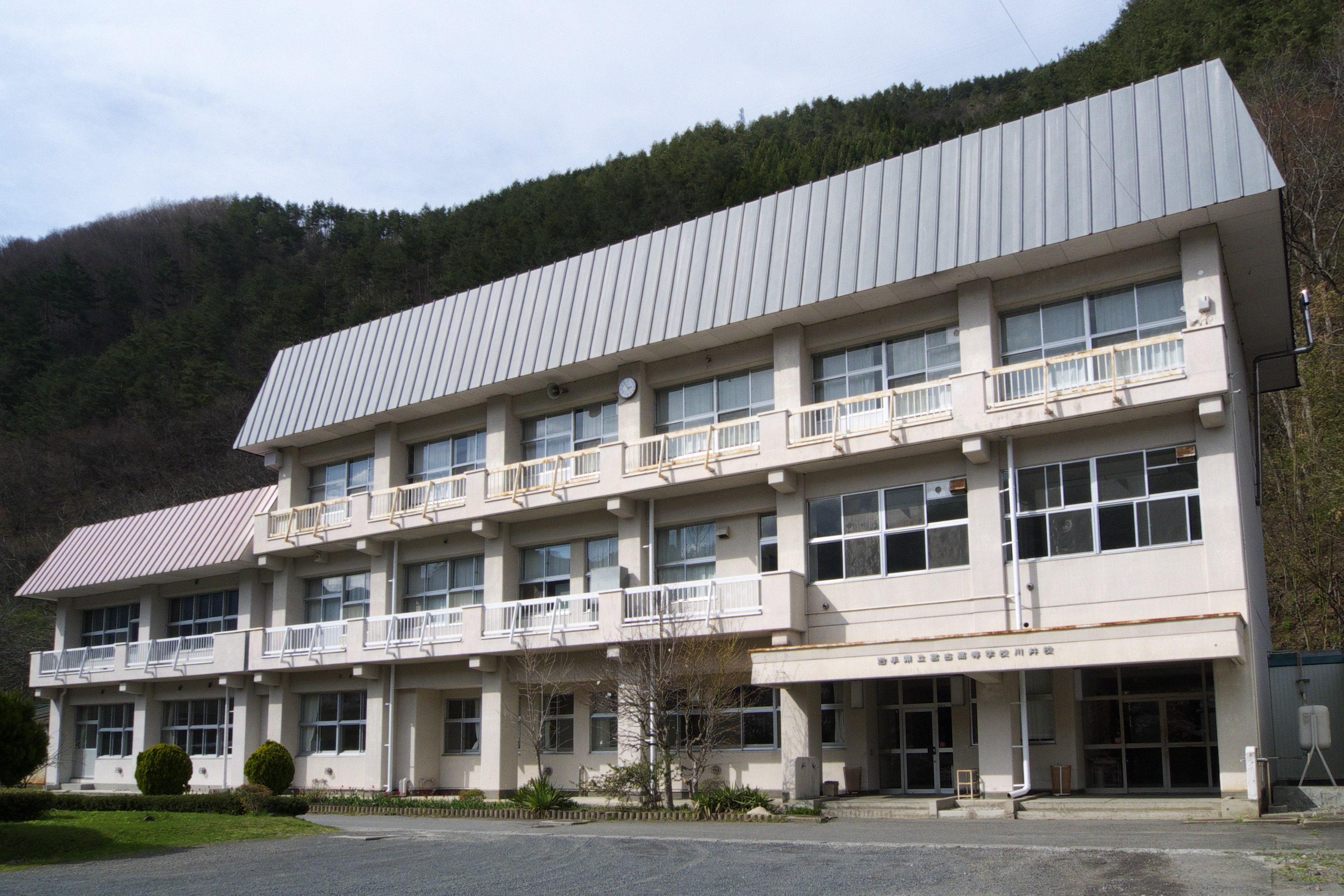 Iwate Prefectural Miyako High School Kawai Branch (became defunct in 2010) in Miyako City, Iwate Prefecture, Japan